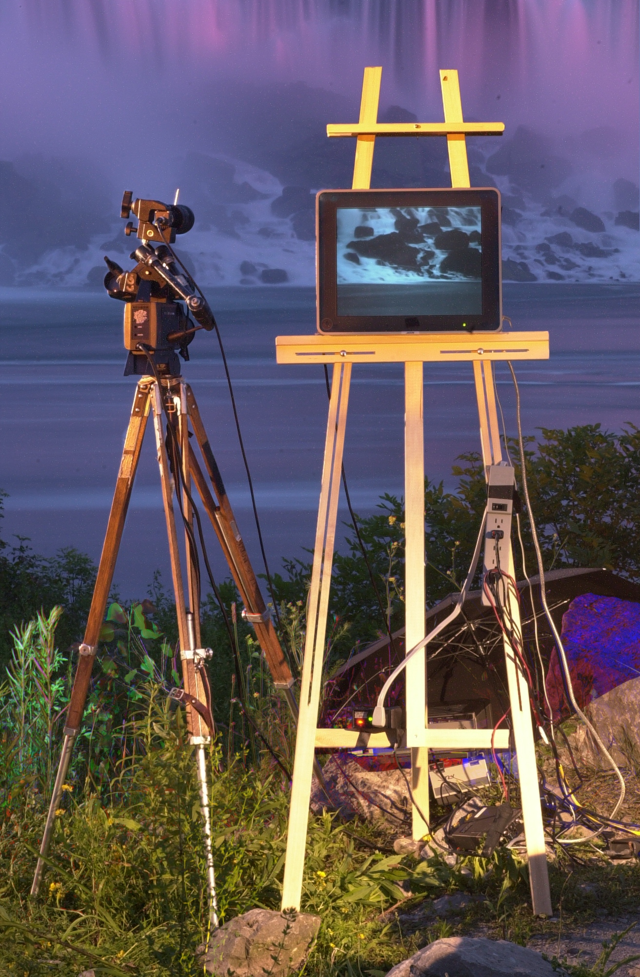 Illustration of Mediated Reality for the John Wiley textbook Intelligent Image Processing. I bought an easel at a Toronto based arts supply store and put a television display ("Apple Studio Monitor") on the easel and connected the TV display to a TV camera, and arranged it so that the view on the TV was a view of what would have been there in the absence of the TV.